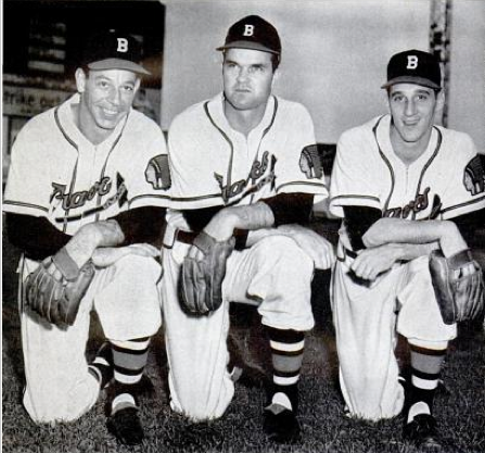 Boston Braves pitchers, from left to right, Vern Bickford, Johnny Sain, and Warren Spahn in a 1951 issue of Baseball Digest.